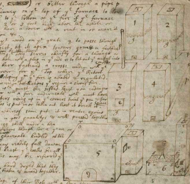 Newton's entry on "Furnace" in his notebook, ca. 1666. MS from Special Collections Research Center, University of Chicago Library